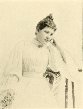 Lena Shoup